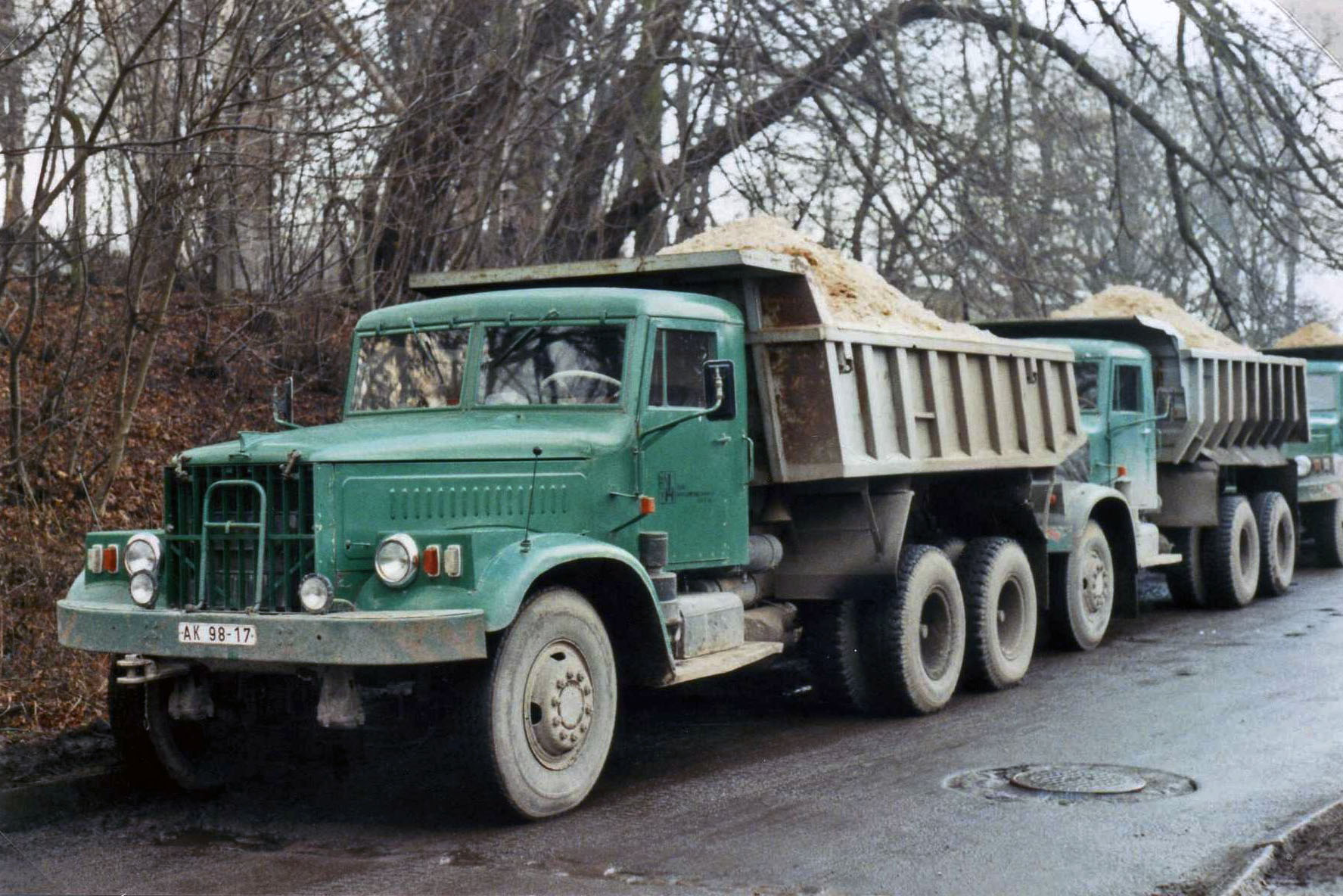 Three KrAZ 256 trucks, Putbus Station, East Germany Jan 1990. The "A" prefix registration indicates Bezirk Rostock, covering the NE corner of the GDR, now the Vorpommern part of the new Land of Mecklenburg-Vorpommern. The leading car has not typical lights and dump platform.